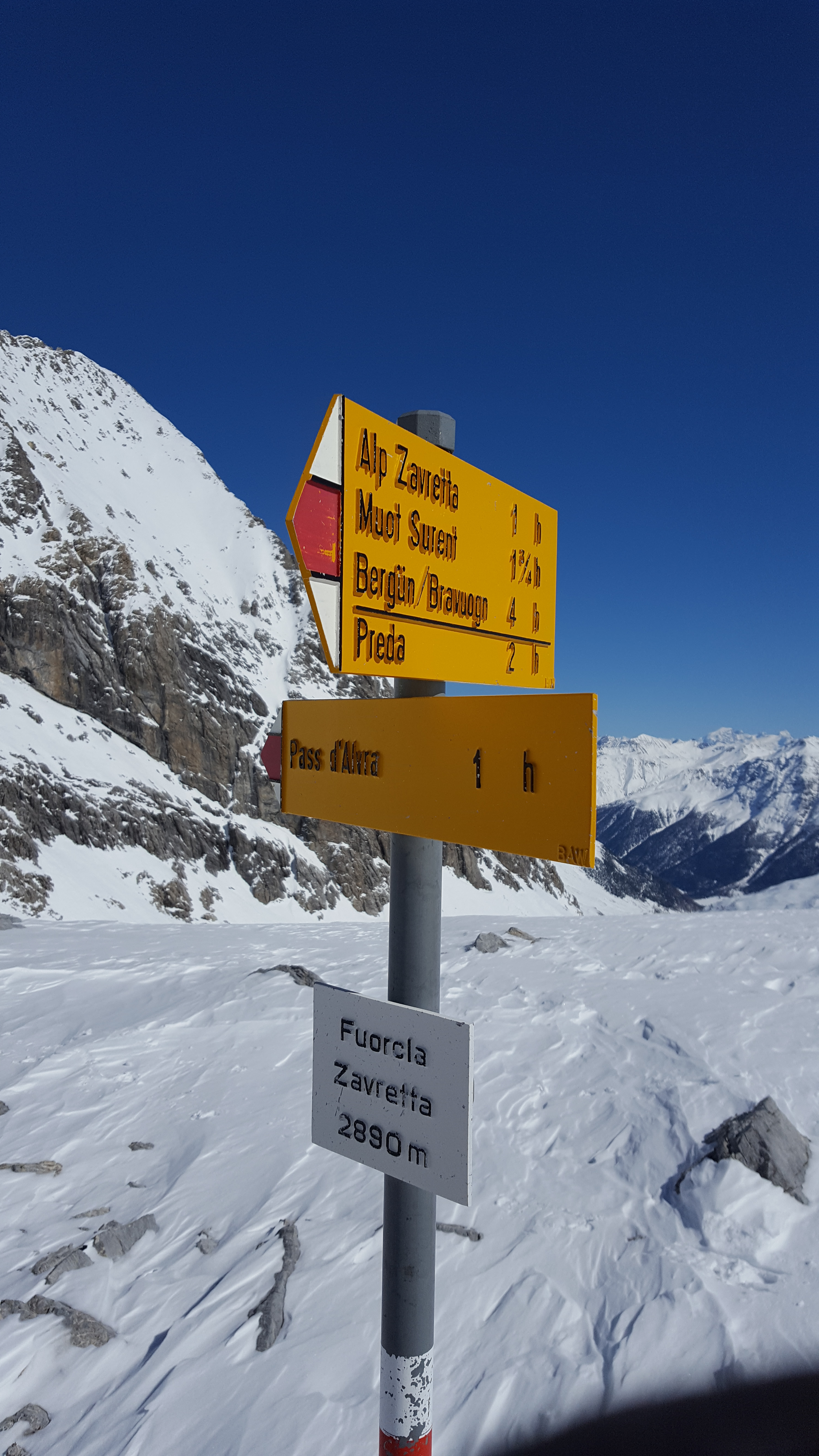 Fingerpost on Fuorcla Zavretta (Bergün/Bravuogn and La Punt-Chamues-ch, Grisons, Switzerland Rumantsch: Mossaveisas sella Fuorcla Zavretta (Bravuogn e La Punt-Chamues-ch, Grischun, Svizra